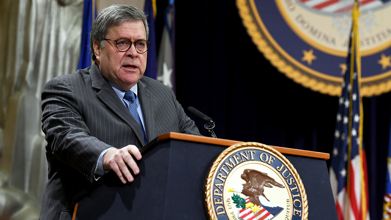 "This Commission is critical, not just because it is timely, but also because few careers are more essential to the health and prosperity of our nation than that of law enforcement." Attorney General William Barr